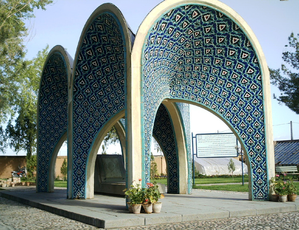 Mausoleum of Mohammad Ghaffari - Nishapur